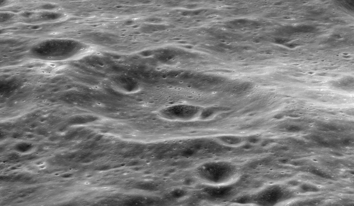 Oblique view of Ludwig crater, facing west, on the moon. Taken by Apollo 17 panoramic camera.